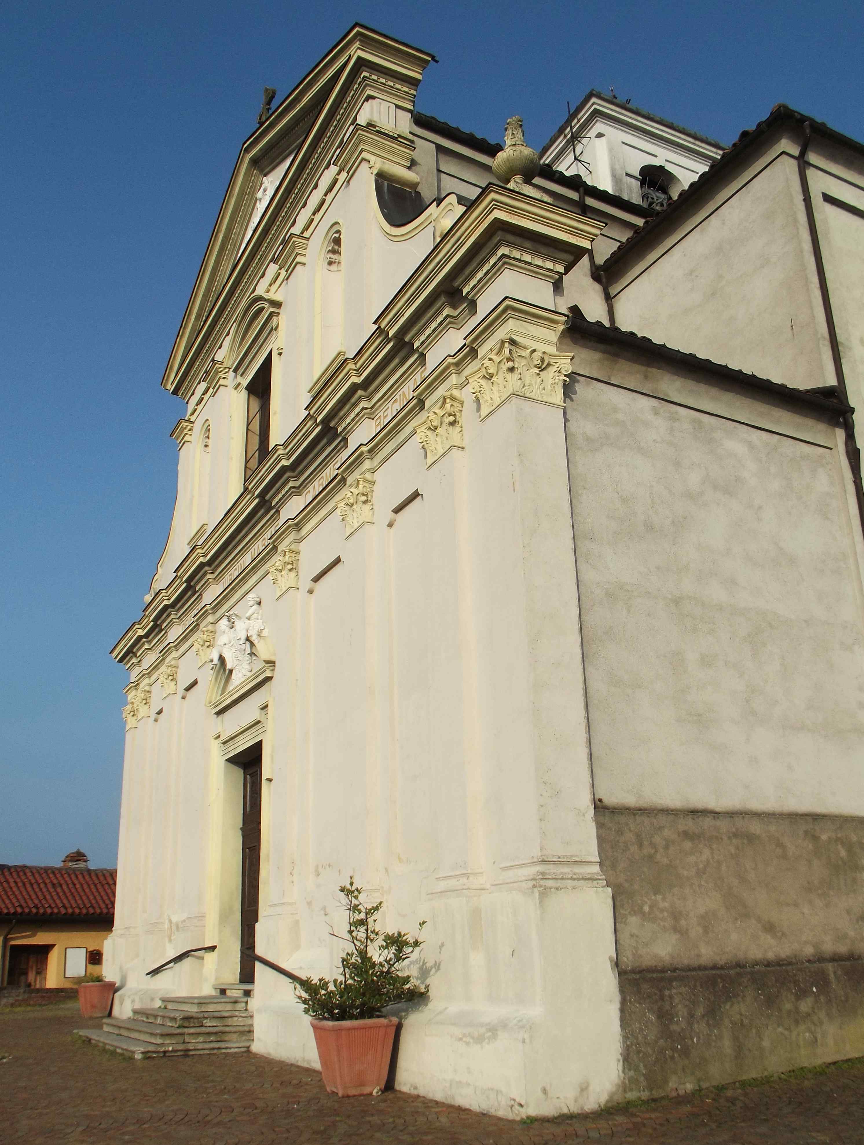 Piazzo (Lauriano, TO, Italy): Saint Mary former parish church